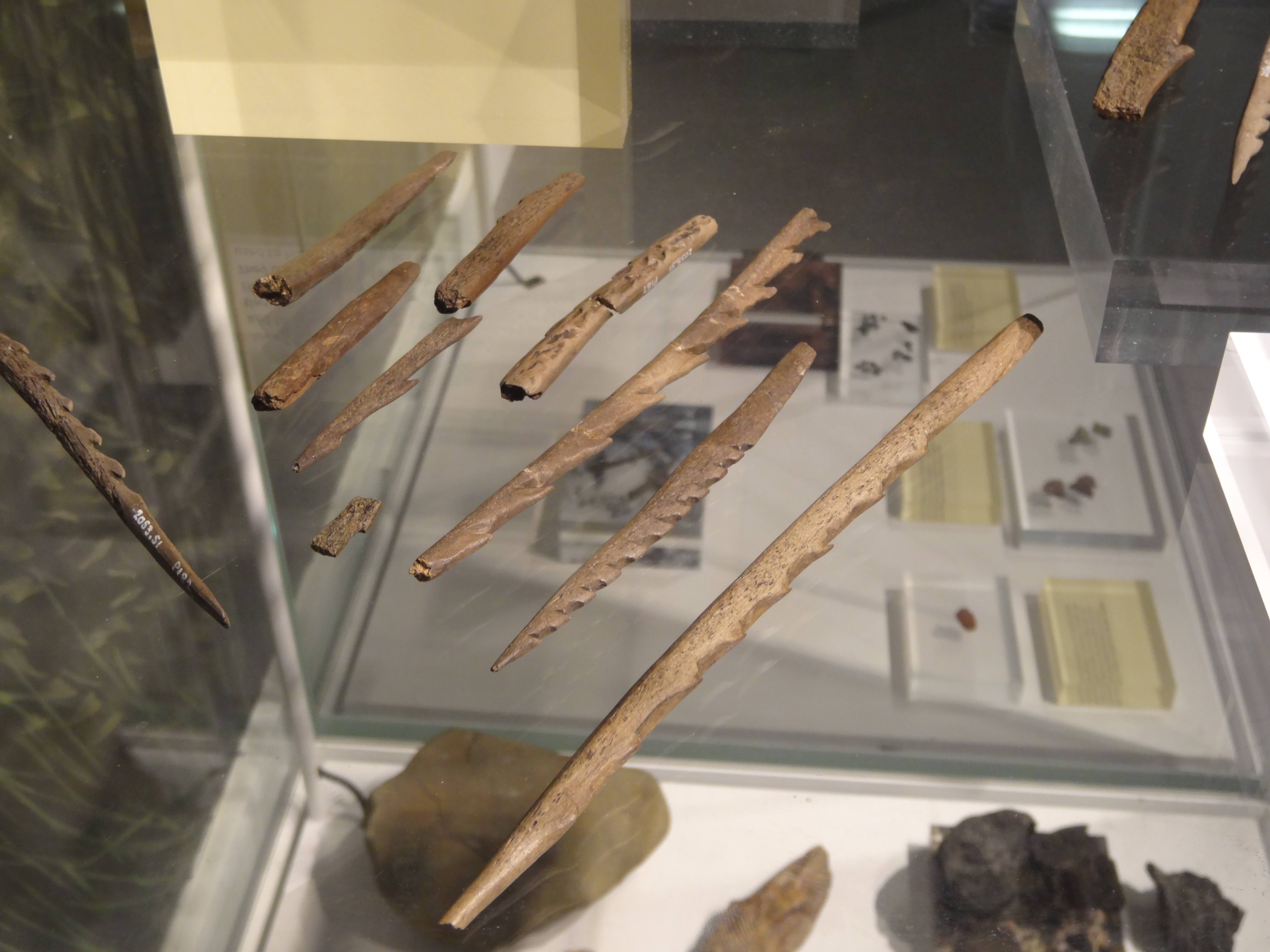 Star Carr collection at Yorkshire museum - mesolithic spear tips from the earliest known post glacial settlement in England